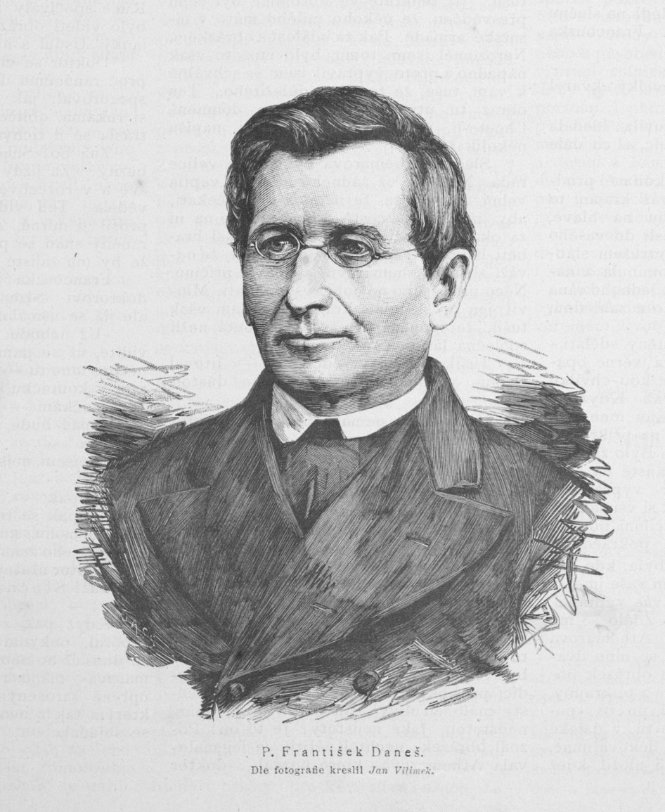 Portrait of František Daneš (1807-1892), Czech priest, teacher and politician.